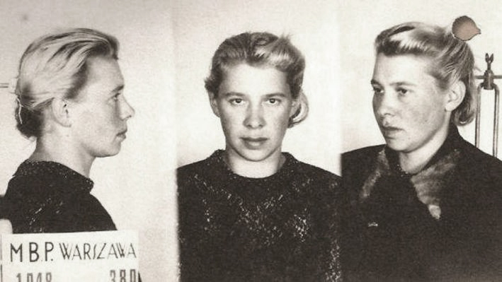 Lidia Lwow-Eberle (born 1920) – Polish archeologist, political prisoner 1948-1956)